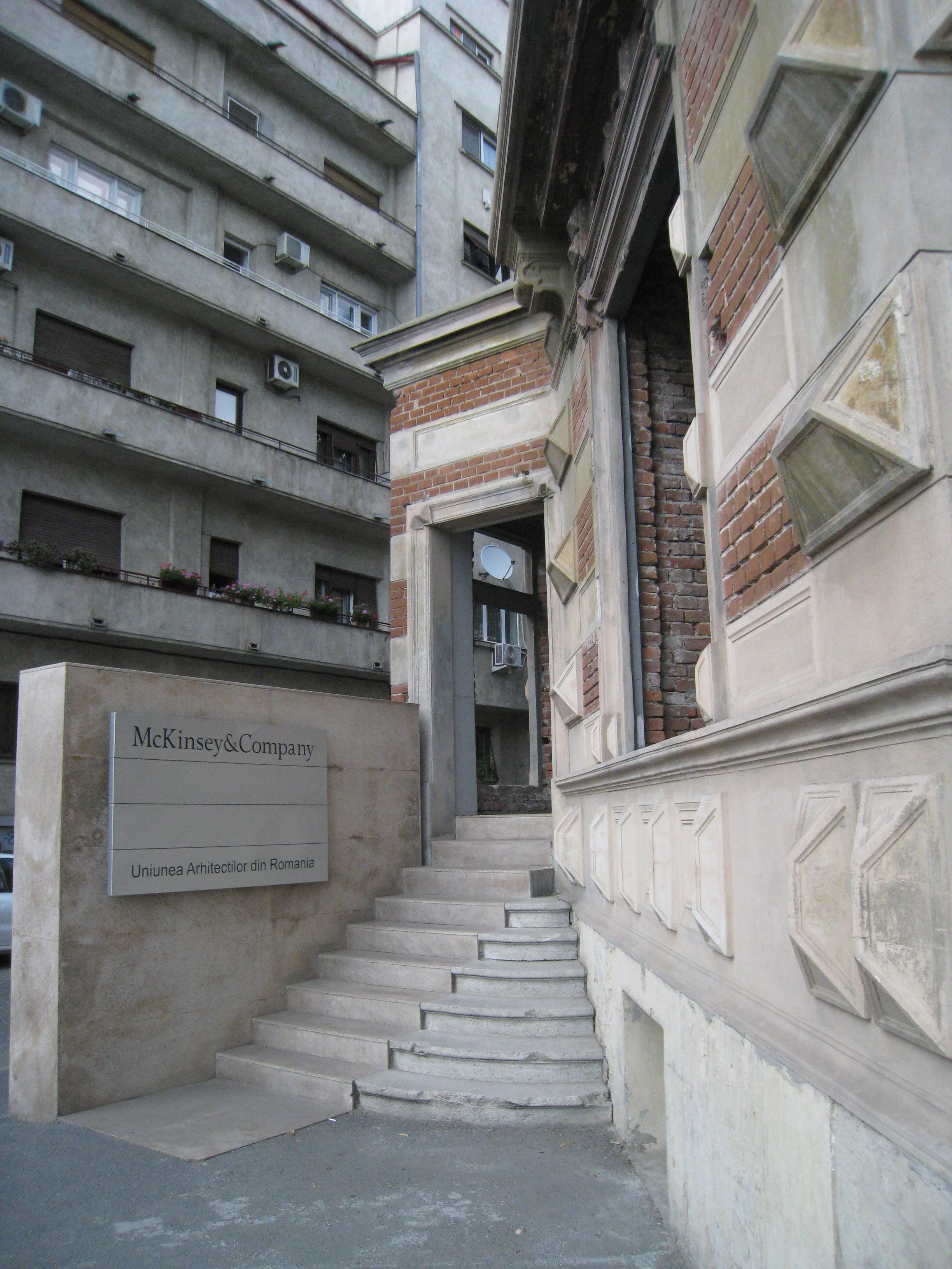 McKinsey's office is in that old/new building